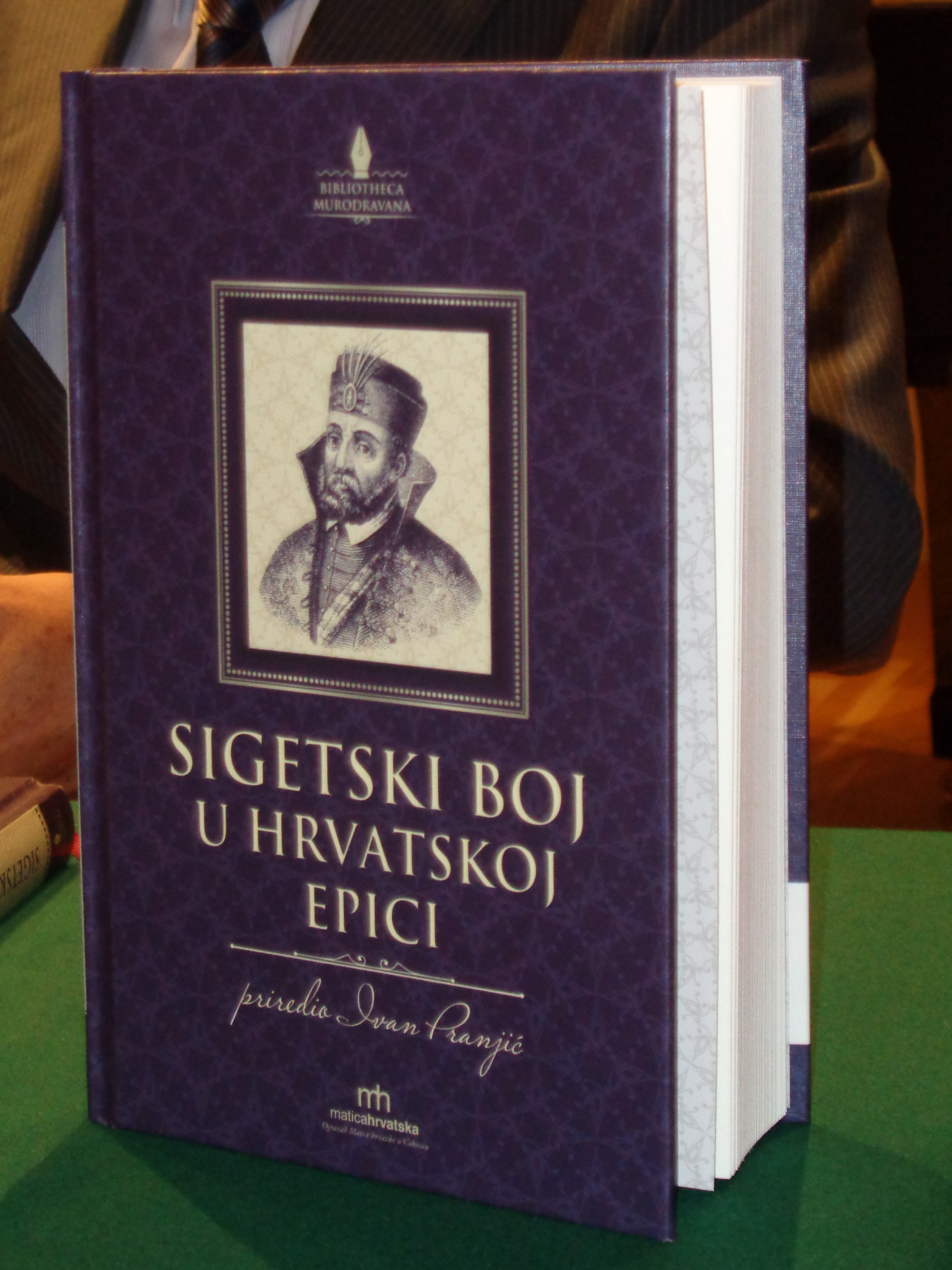 "The Battle of Szigetvar in Croatian epic" book promotion in Čakovec, Croatia (Author: Ivan Pranjić)